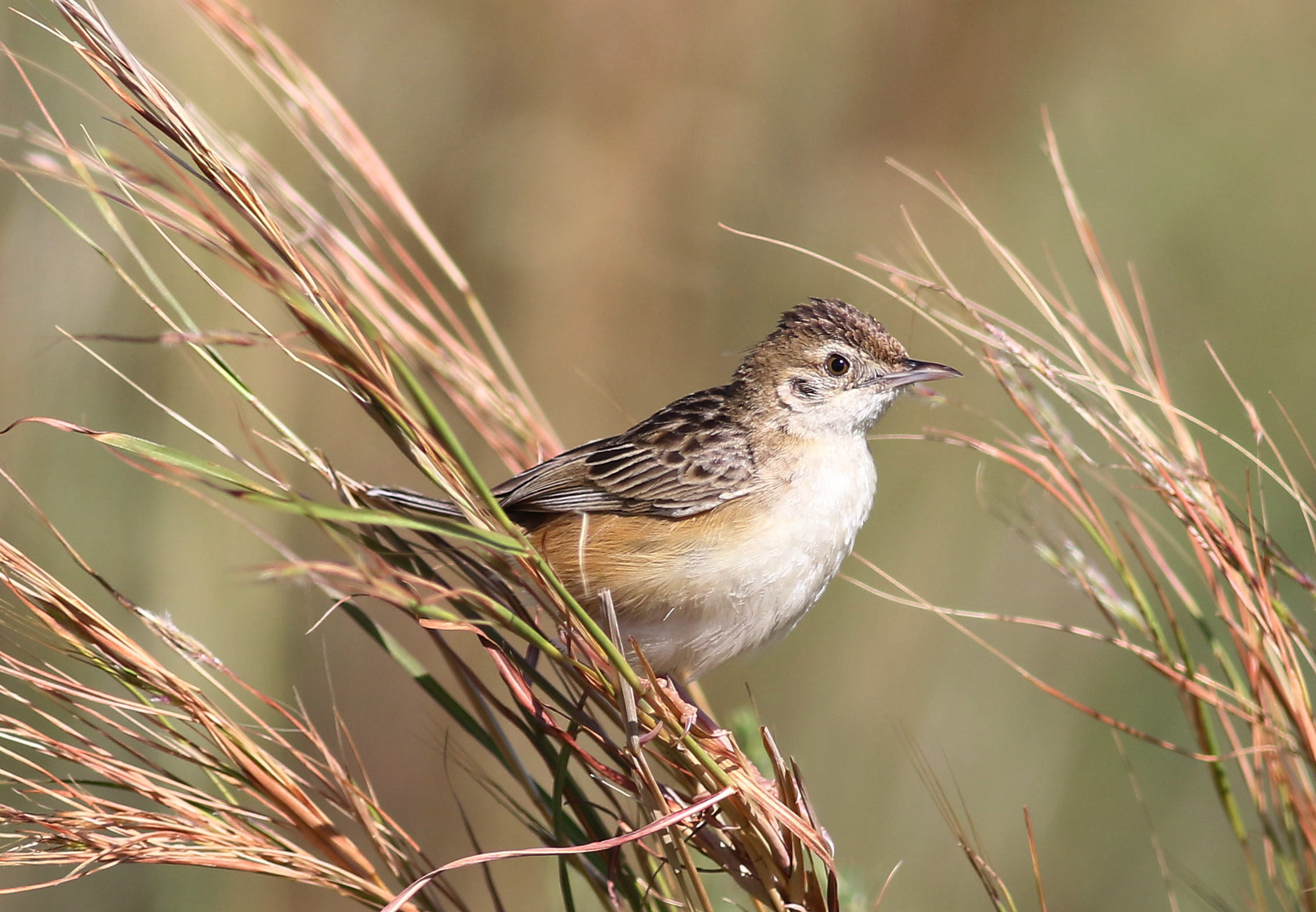 Zitting cisticola or streaked fantail warbler (Cisticola juncidis),at Rietvlei Nature Reserve, Gauteng, South Africa